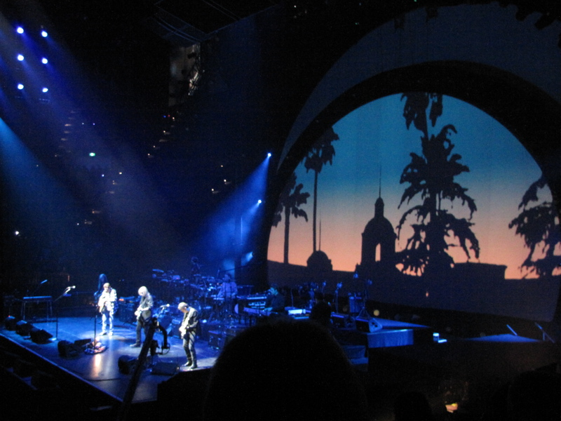 The Eagles in concert - Hotel California December 18, 2010, Melbourne, Australia